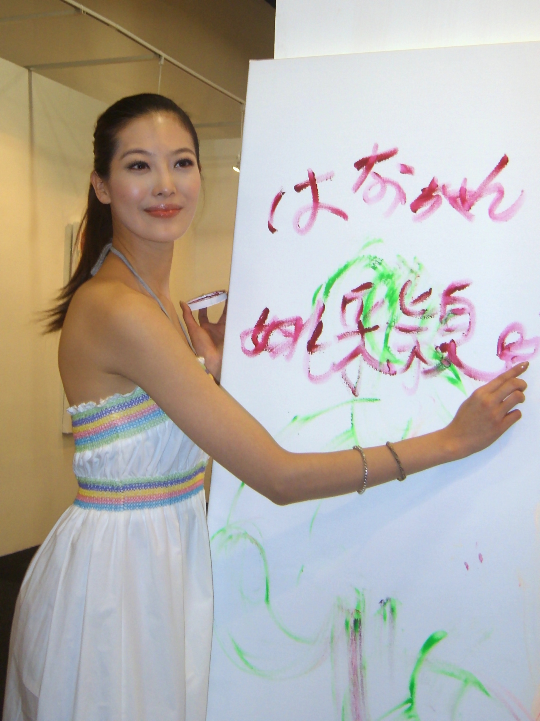 Art Taipei 2008: Yvonne Yao.